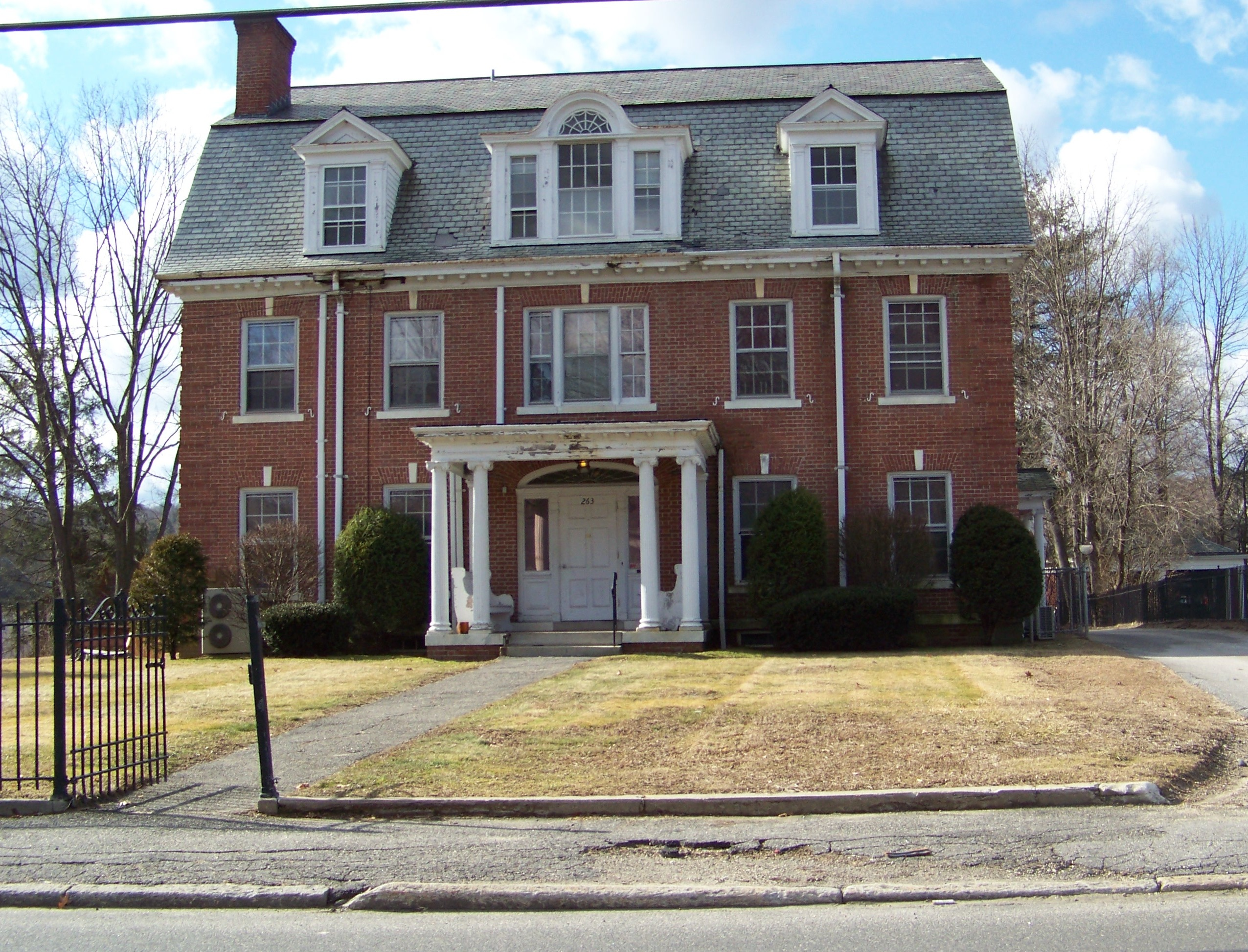 Pease House, Migeon Avenue, Torrington, Connecticut. A contributing building in the NRHP-listed Migeon Avenue Historic District.